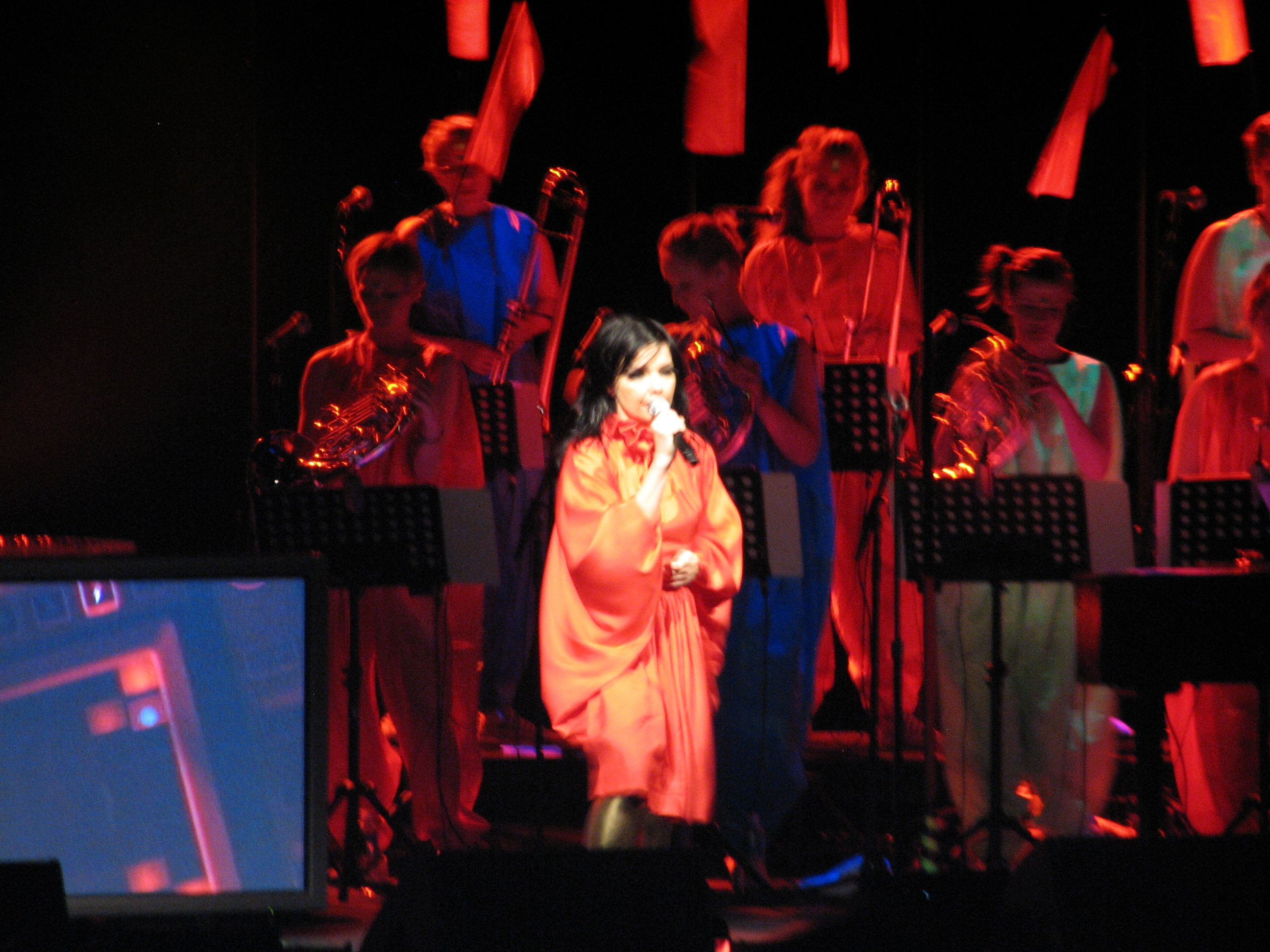 Björk at Radio City Music Hall